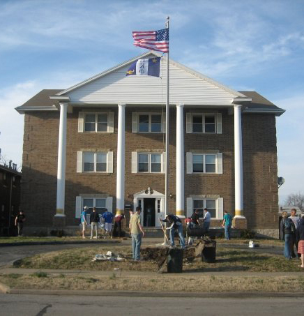 A picture of the Theta Lambda (Missouri State) chapter of the Pi Kappa Phi fraternity.